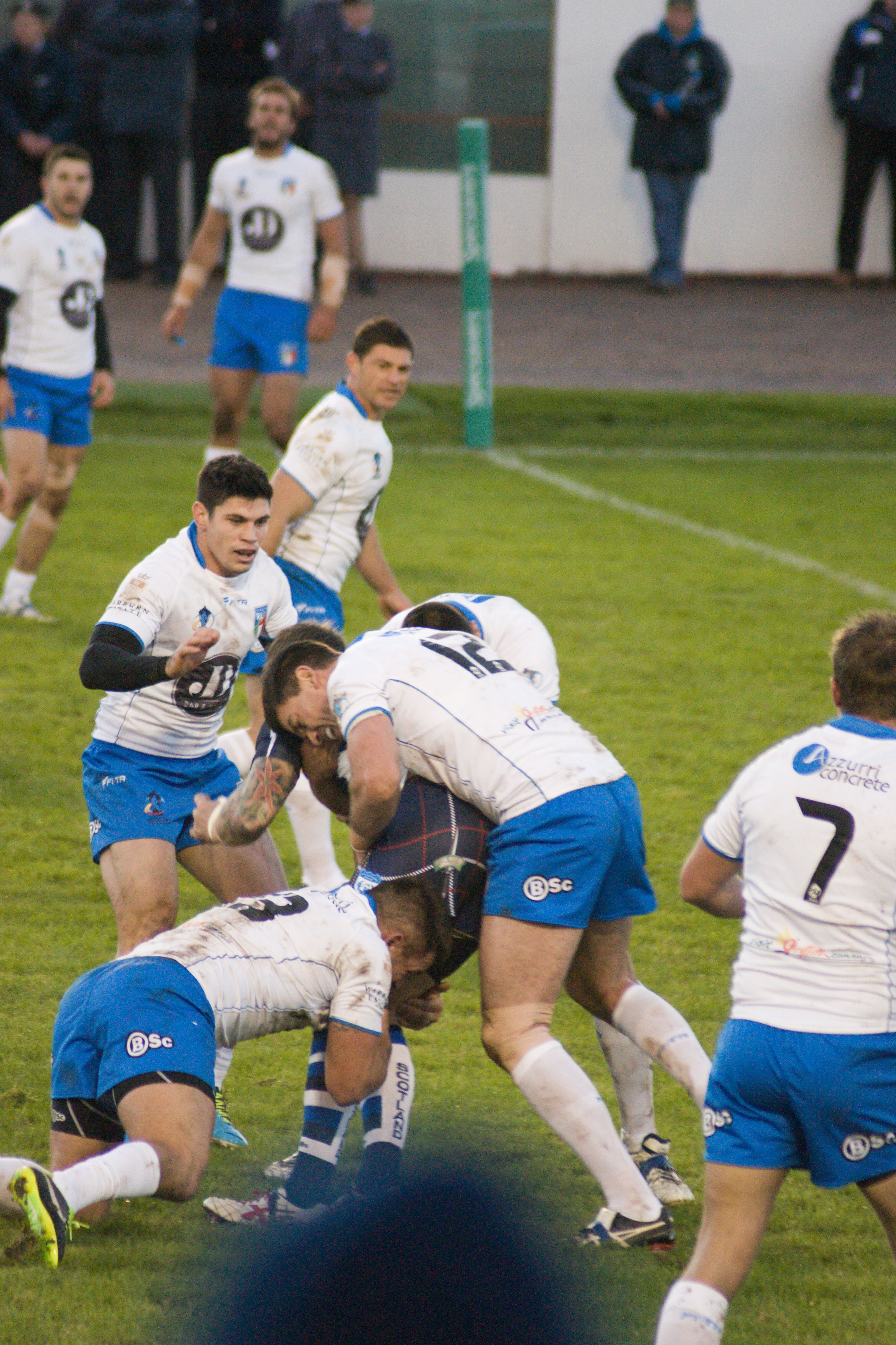 2013 Rugby League World Cup match between Scotland and Italy at Derwent Park in Workington.